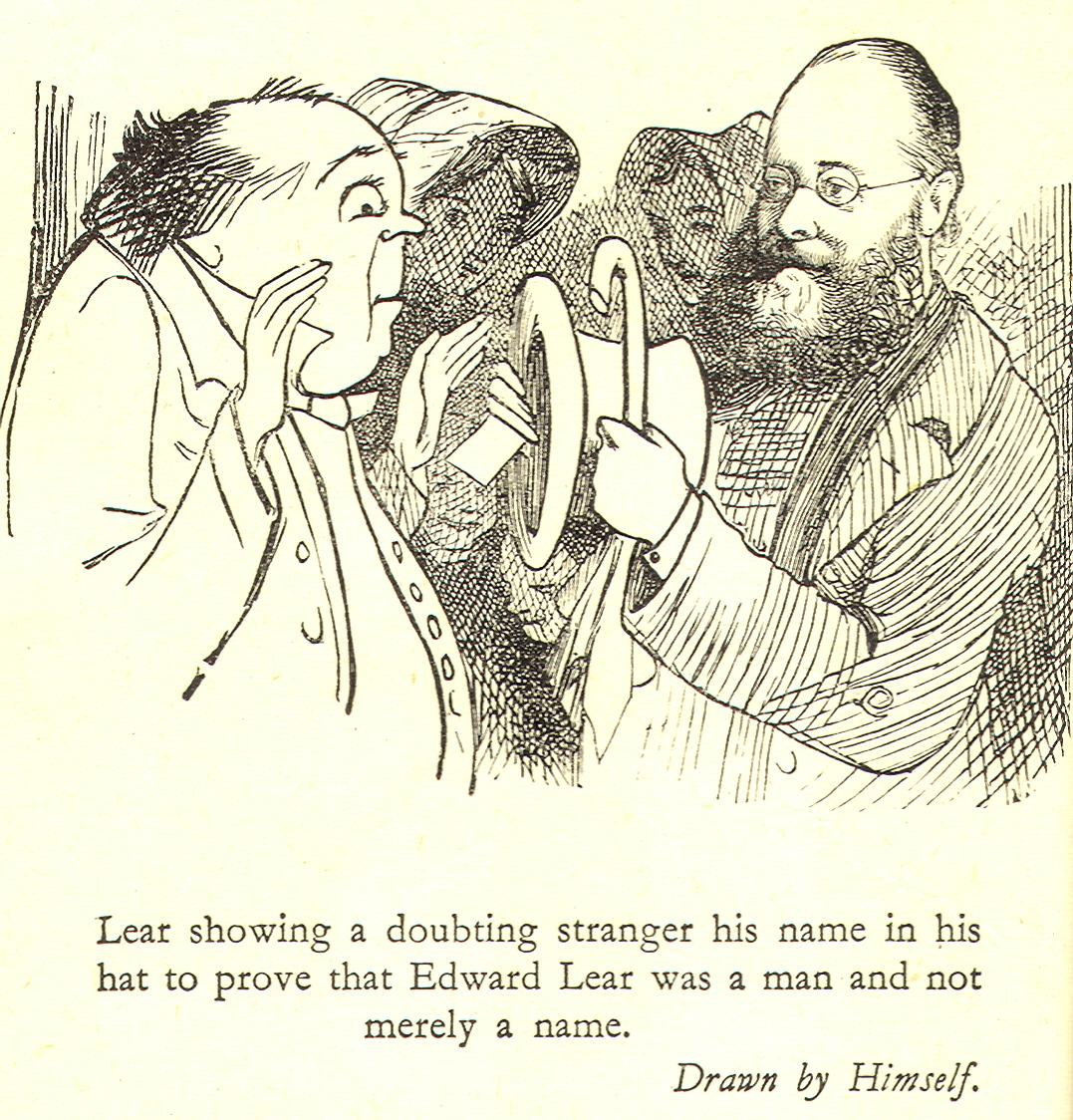 Edward Lear self-portrait. Taken from the Edward Lear's Nonsense Omnibus (1943), Frederick Warne & Co. Ltd. Scanned by me, User:MakeRocketGoNow